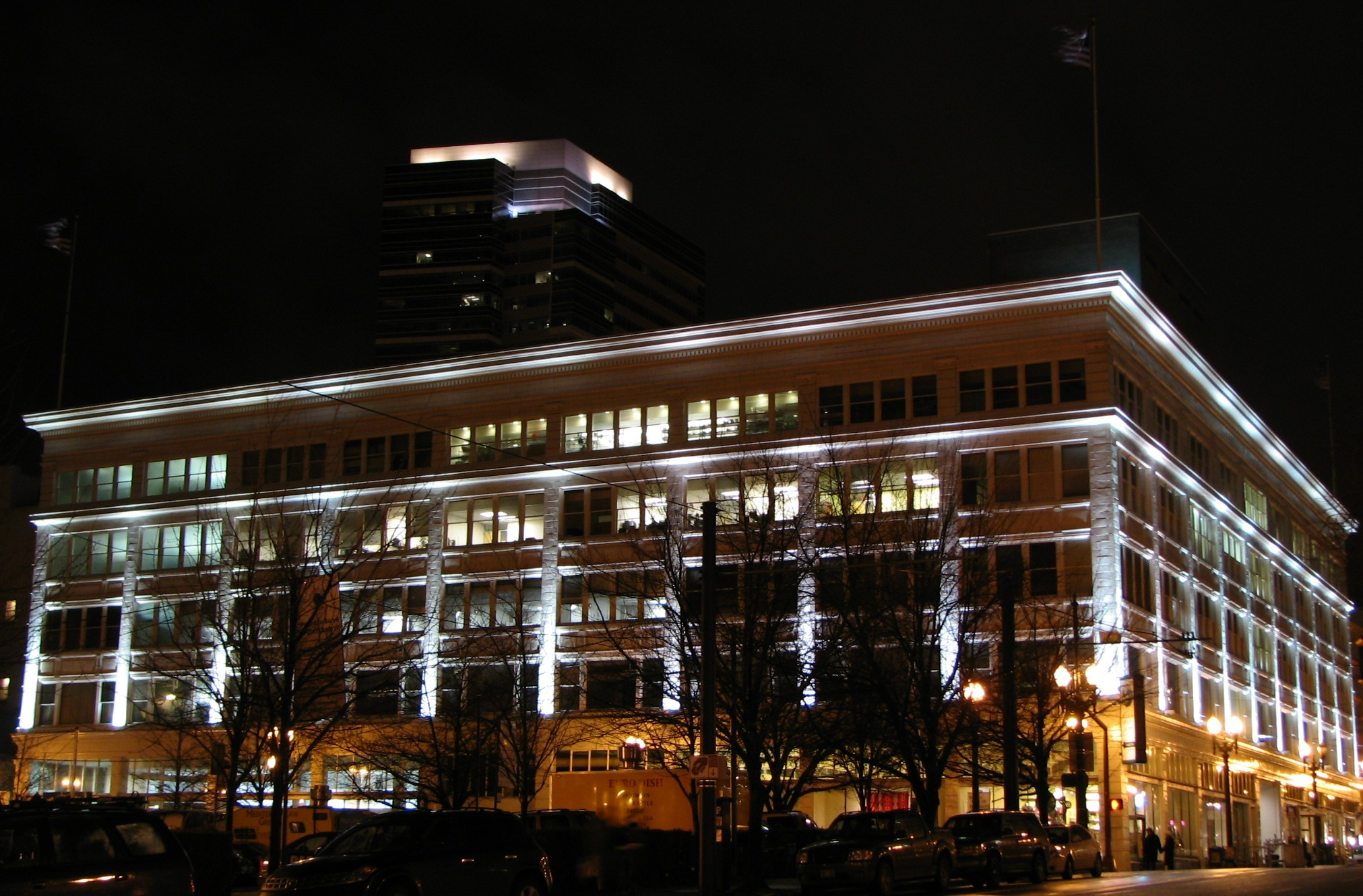 The Galleria shopping center in downtown Portland, Oregon, United States, is listed on the US National Register of Historic Places under its historic name of Olds, Wortman and King Department Store.